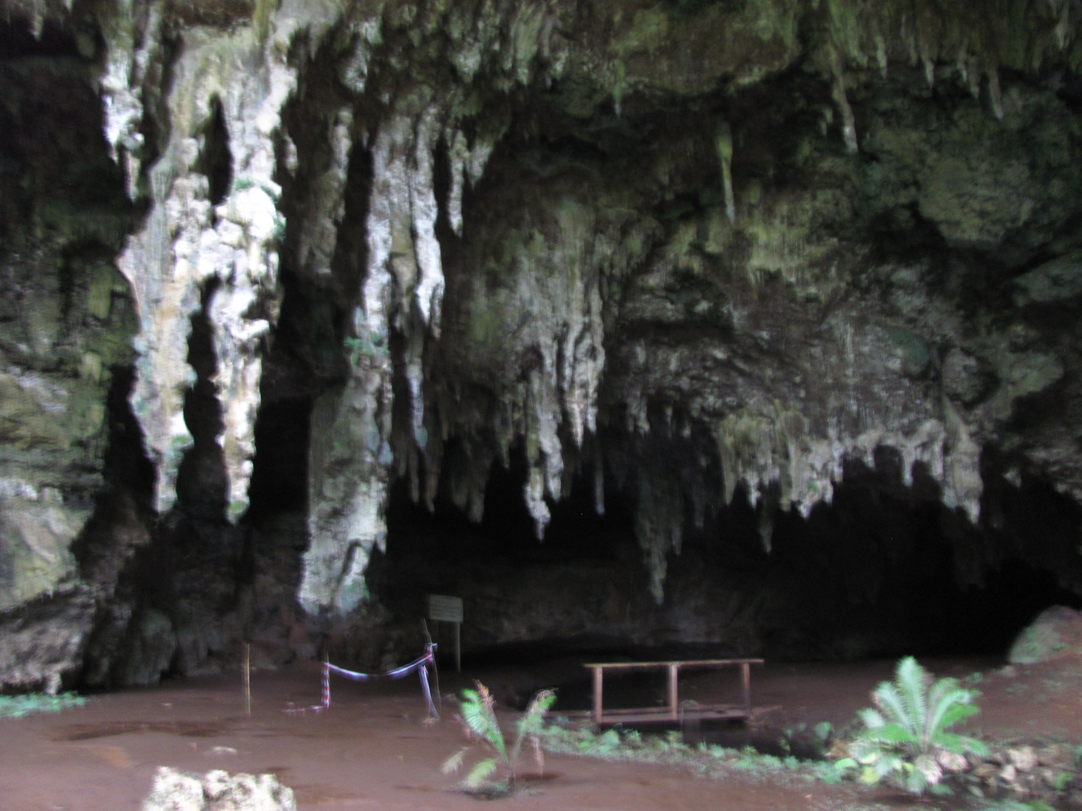 Cave "Grotte de la Reine Hortense", L'Île-des-Pins, New Caledonia